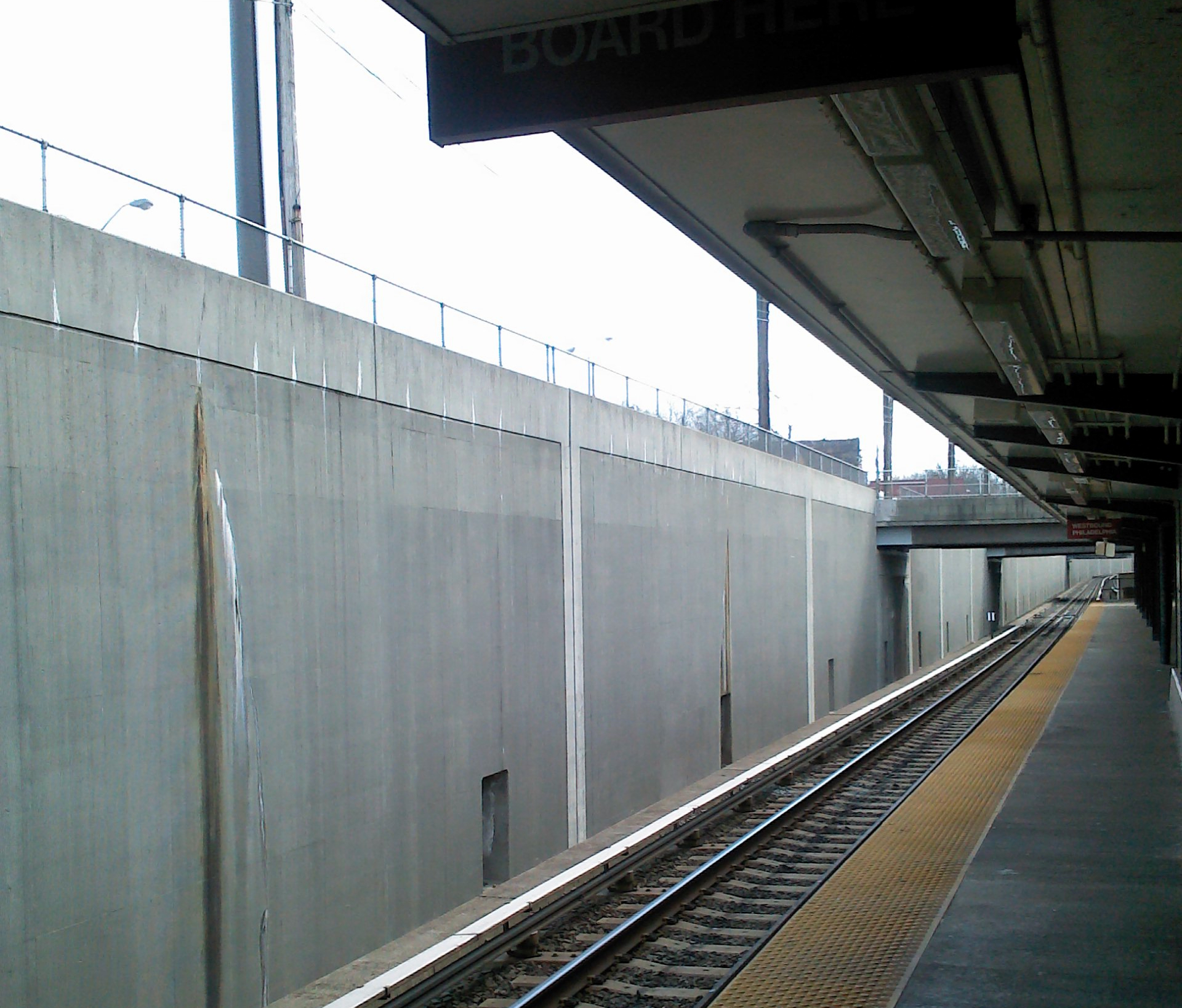 Haddonfield PATCO station platform, on the westbound train side to Philadelphia, facing eastbound towards Lindenwold